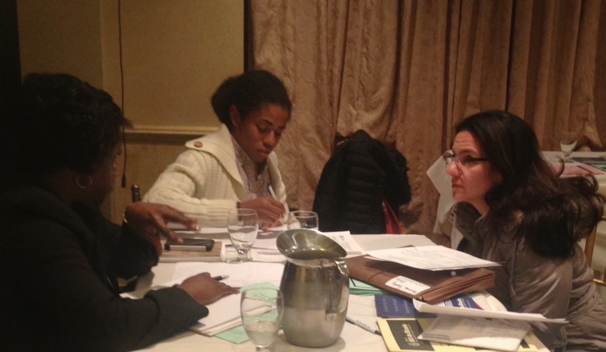 Public Advocate Bill de Blasio's staff members distribute informational guides and answer community residents' questions on FEMA, insurance and unemployment benefits